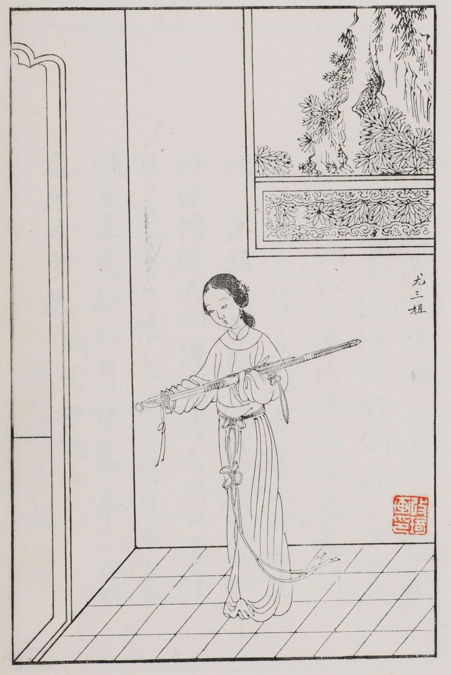 You Sanjie